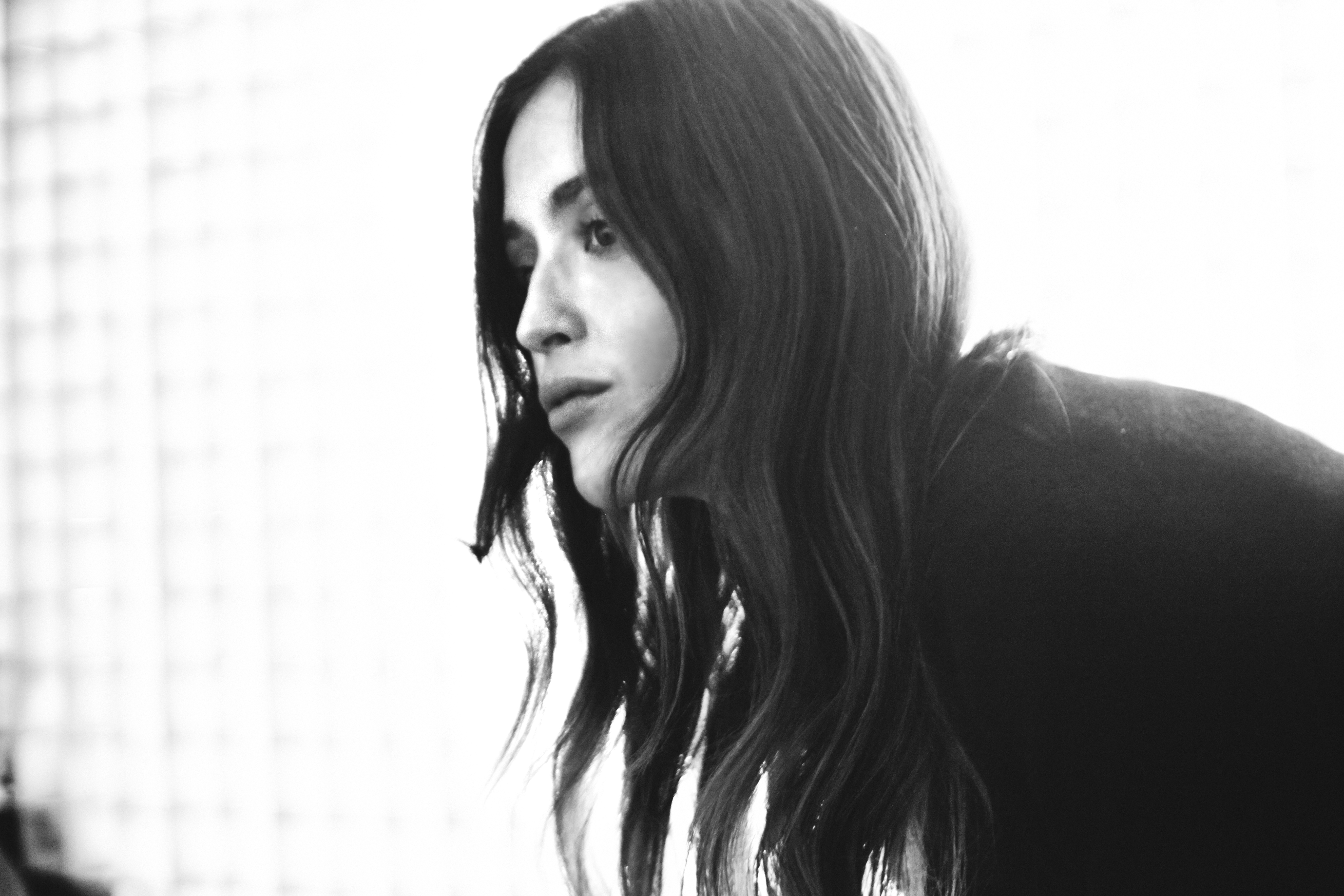 Photograph of Fashion Designer Barbara Casasola, January 2014 Photograph of Fashion Designer Barbara Casasola, January 2014